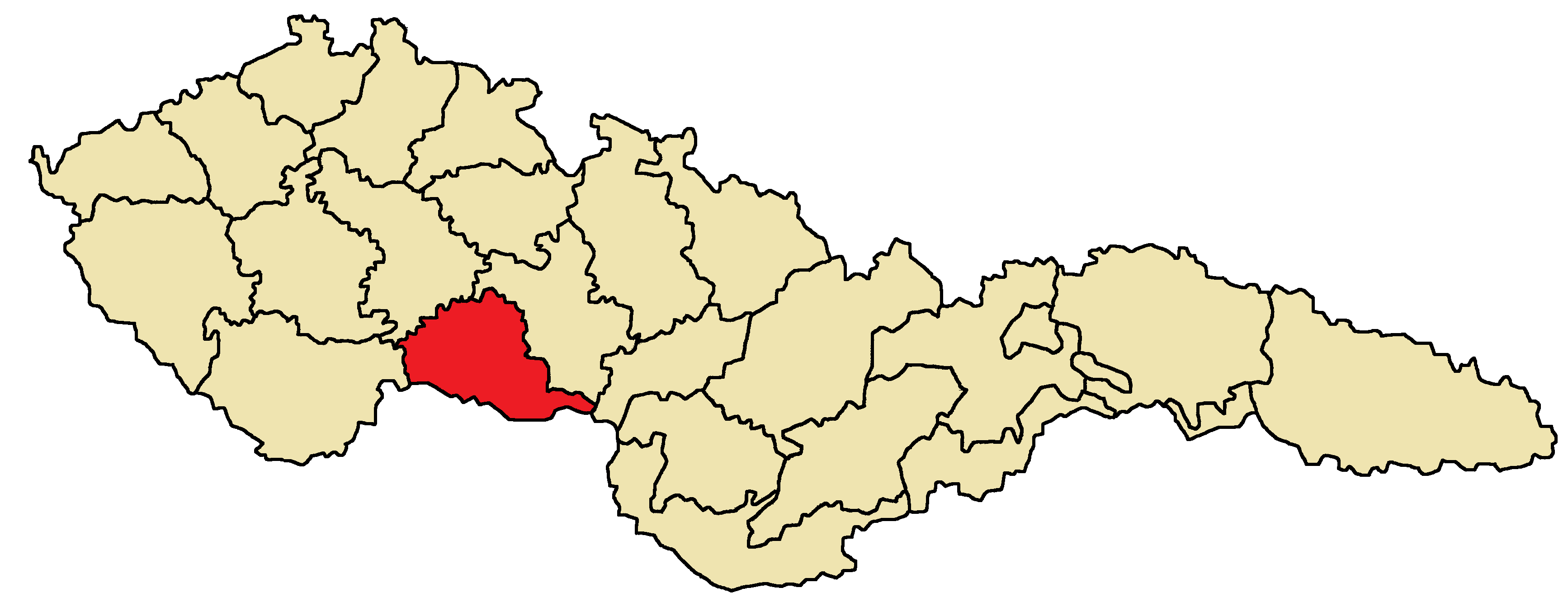 Electoral District used in 1925, 1929, 1935 elections for the Chamber of Deputies, Czechoslovakia